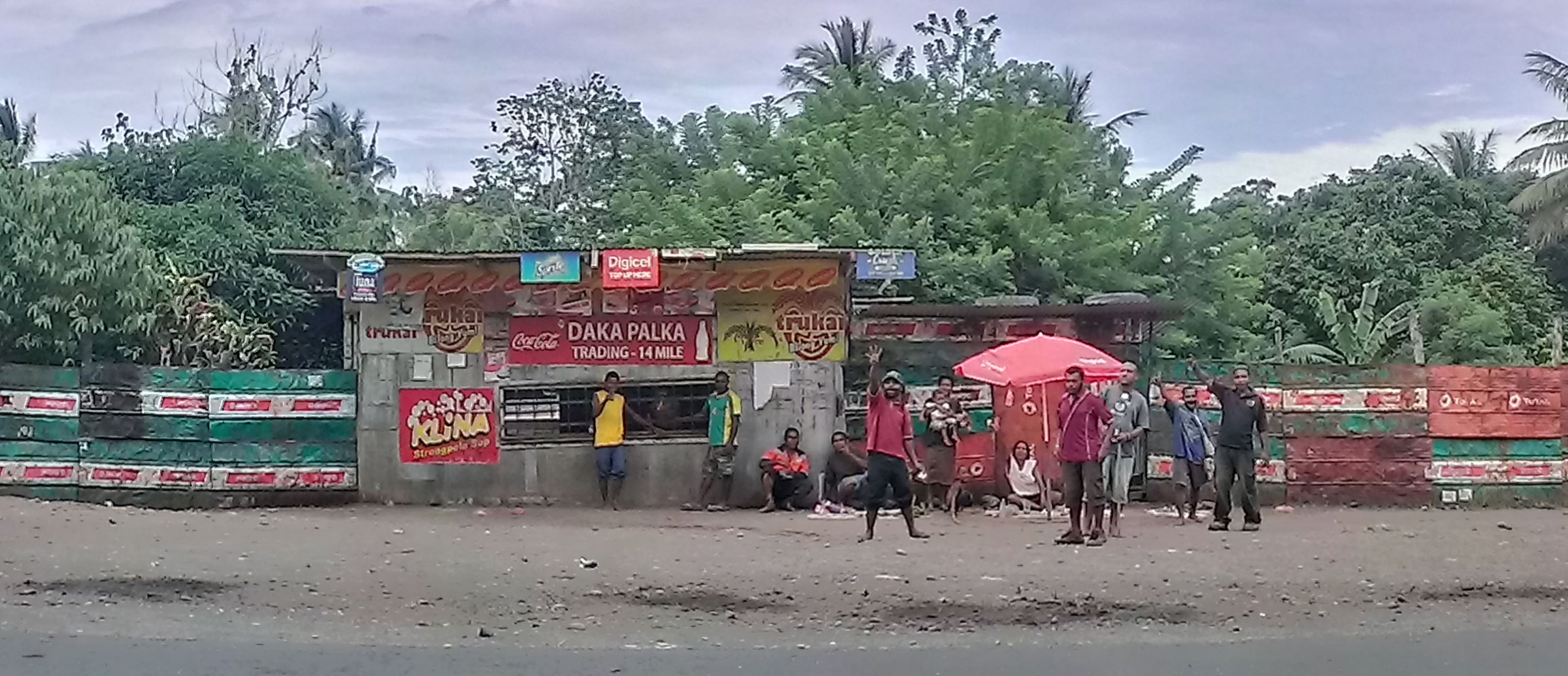 Yalu road side store (14 Mile)